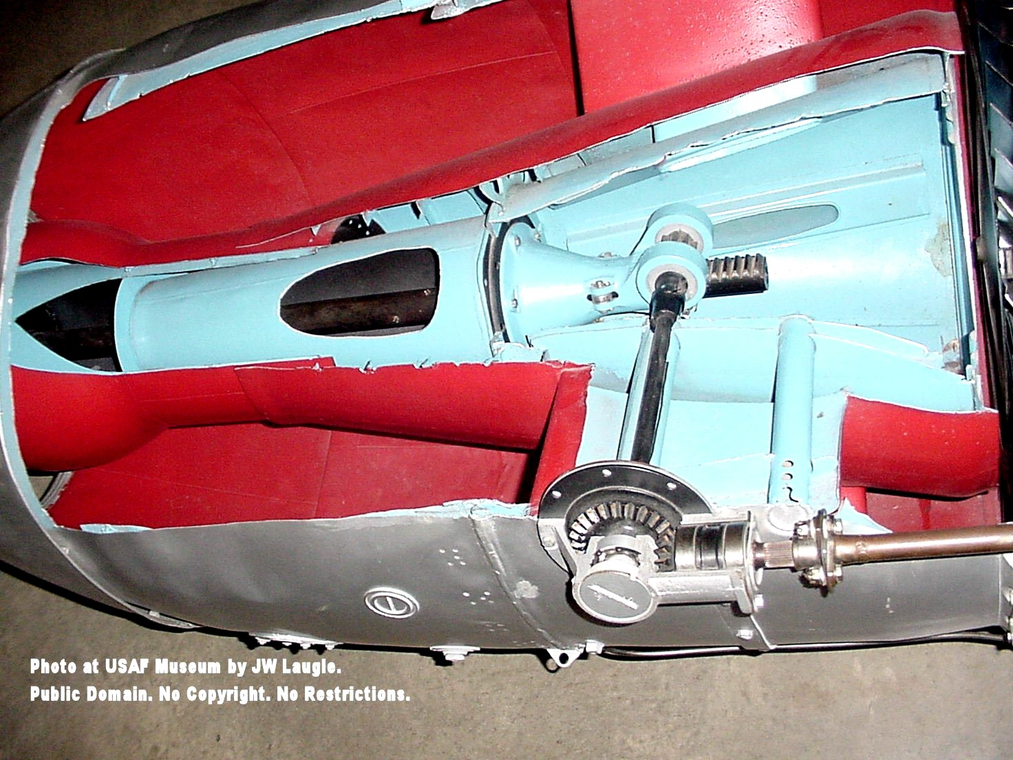 The exhaust area of the 004 featured a variable geometry nozzle, which had a special restrictive body nicknamed the Zwiebel (German for onion, due to its shape when seen from the side) which had roughly 40 cm (16 inch) fore-and-aft travel to vary the jet exhaust's cross-sectional area for thrust control, as the active part of a pioneering "divergent-convergent" nozzle format.